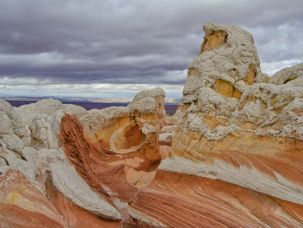 White Pocket formations. Was cloudy the whole time I was there.